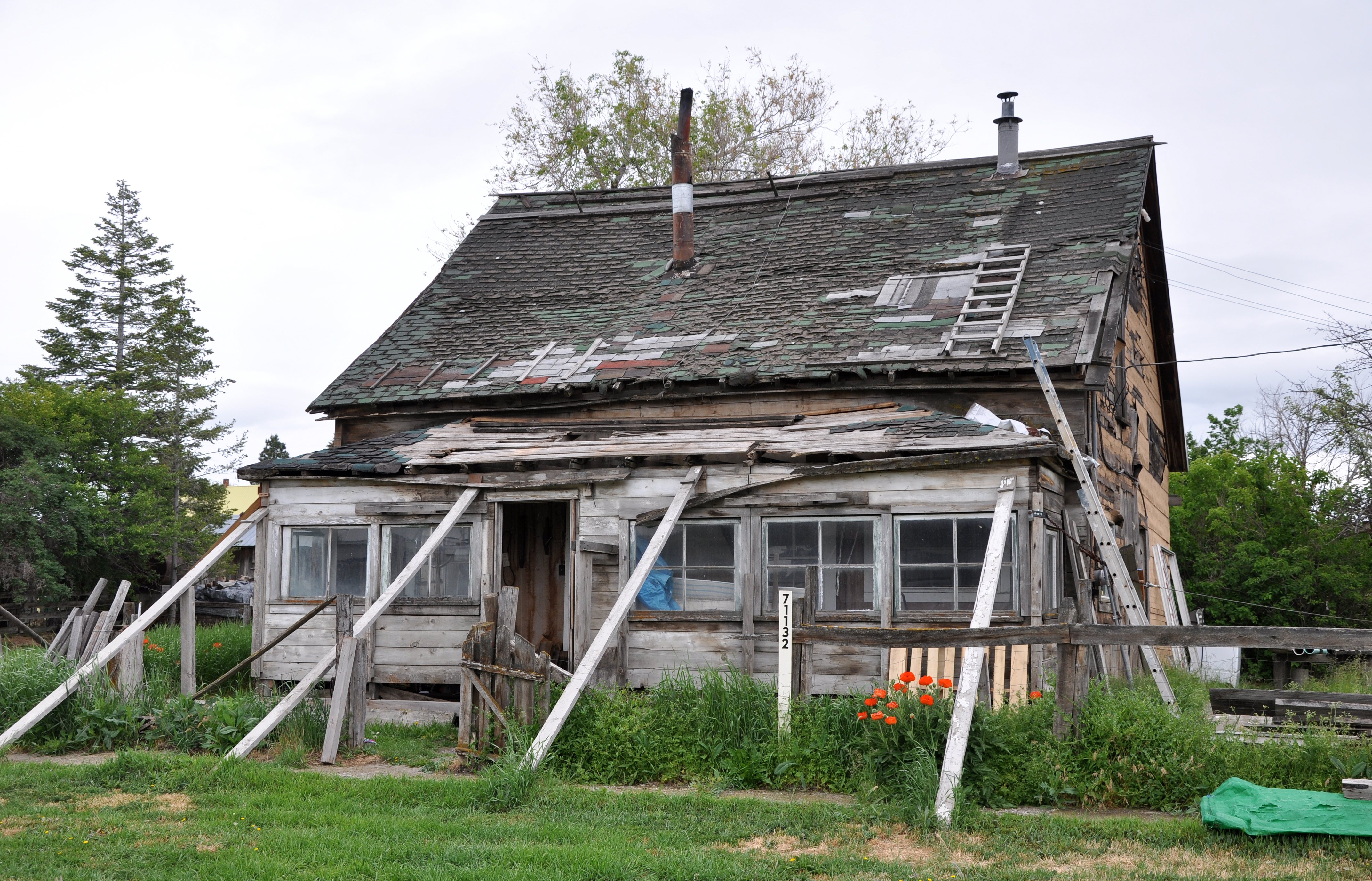 Falling-down house in Hardman, a ghost town in the U.S. state of Oregon